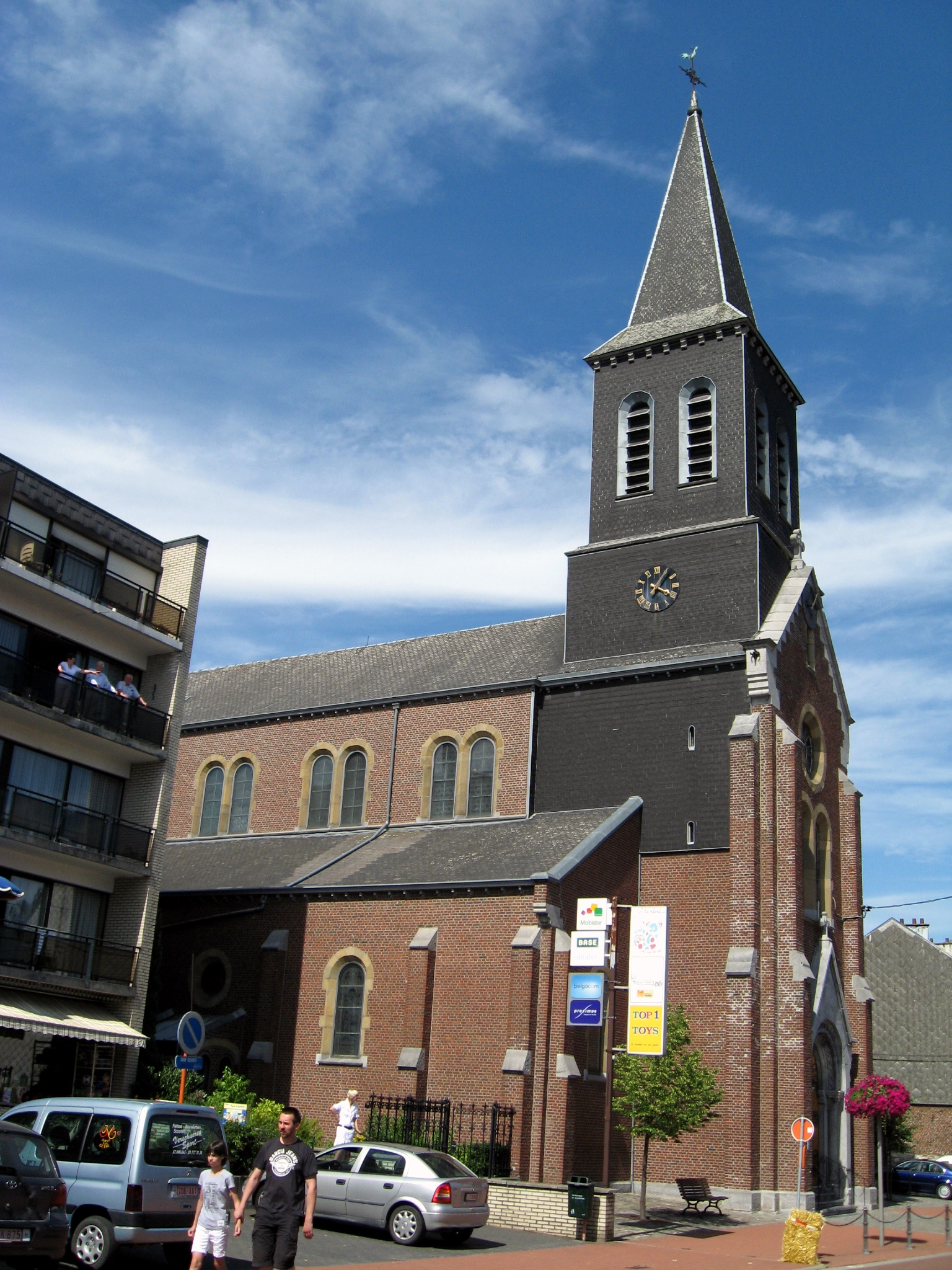 Church of Saint John the Baptiser in Welkenraedt, Liège, Belgium